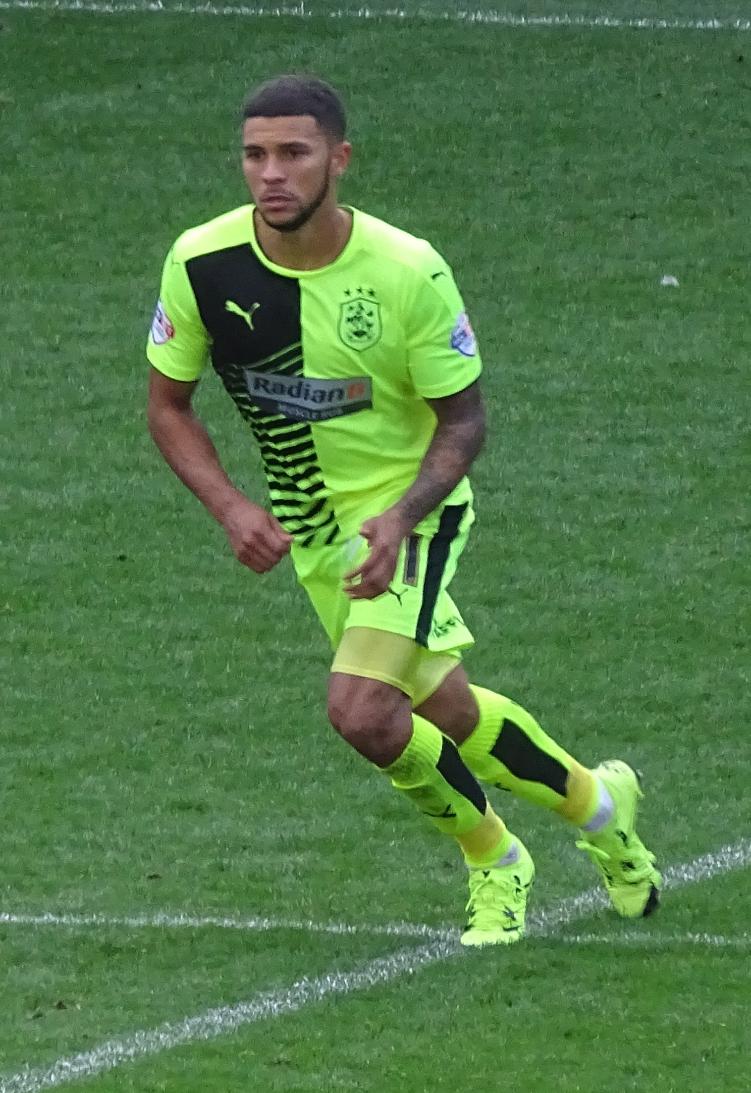 Footballer Nahki Wells in 2015.